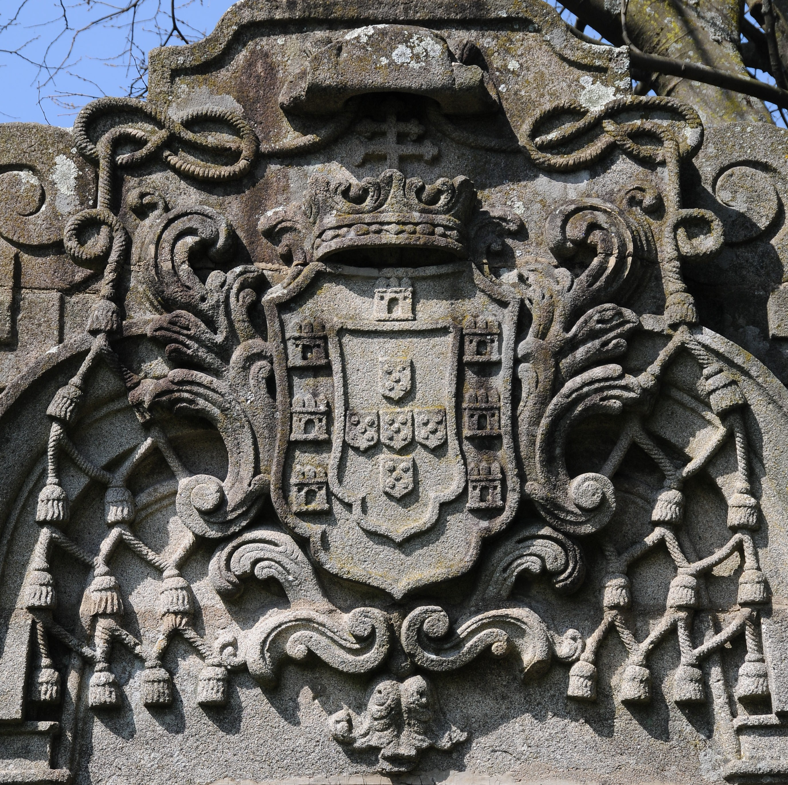 Coats of arms of José de Bragança archbishop of Braga, in Rua Andrade Corvo Fountain, Braga, Portugal.